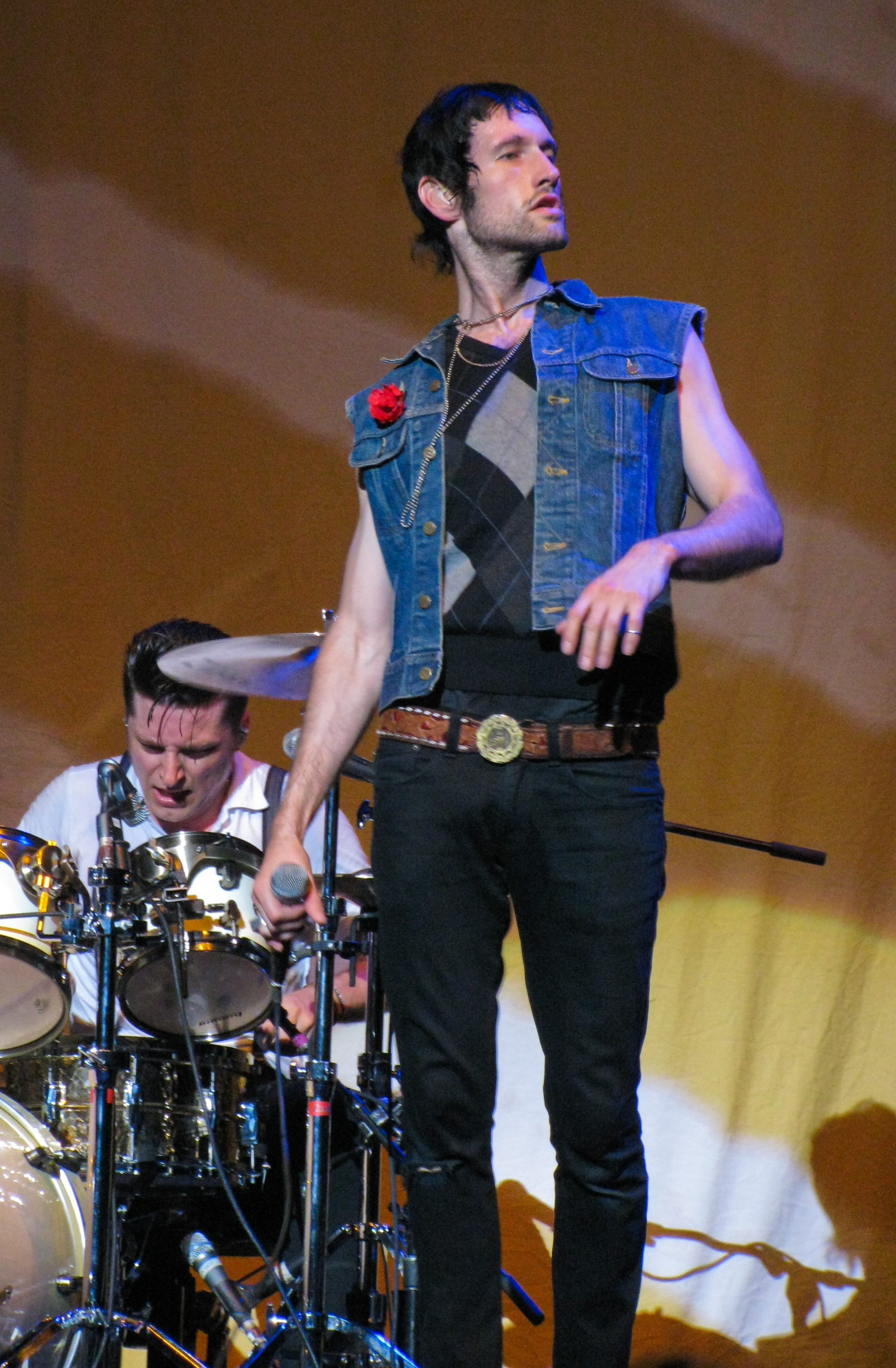 Green Day Concert - The Bravery The Bravery at the Green Day Concert (21st Century Breakdown Tour) @ Bell Center , Montreal, Canada on 18th July 2009. The Bravery opened for Green Day.